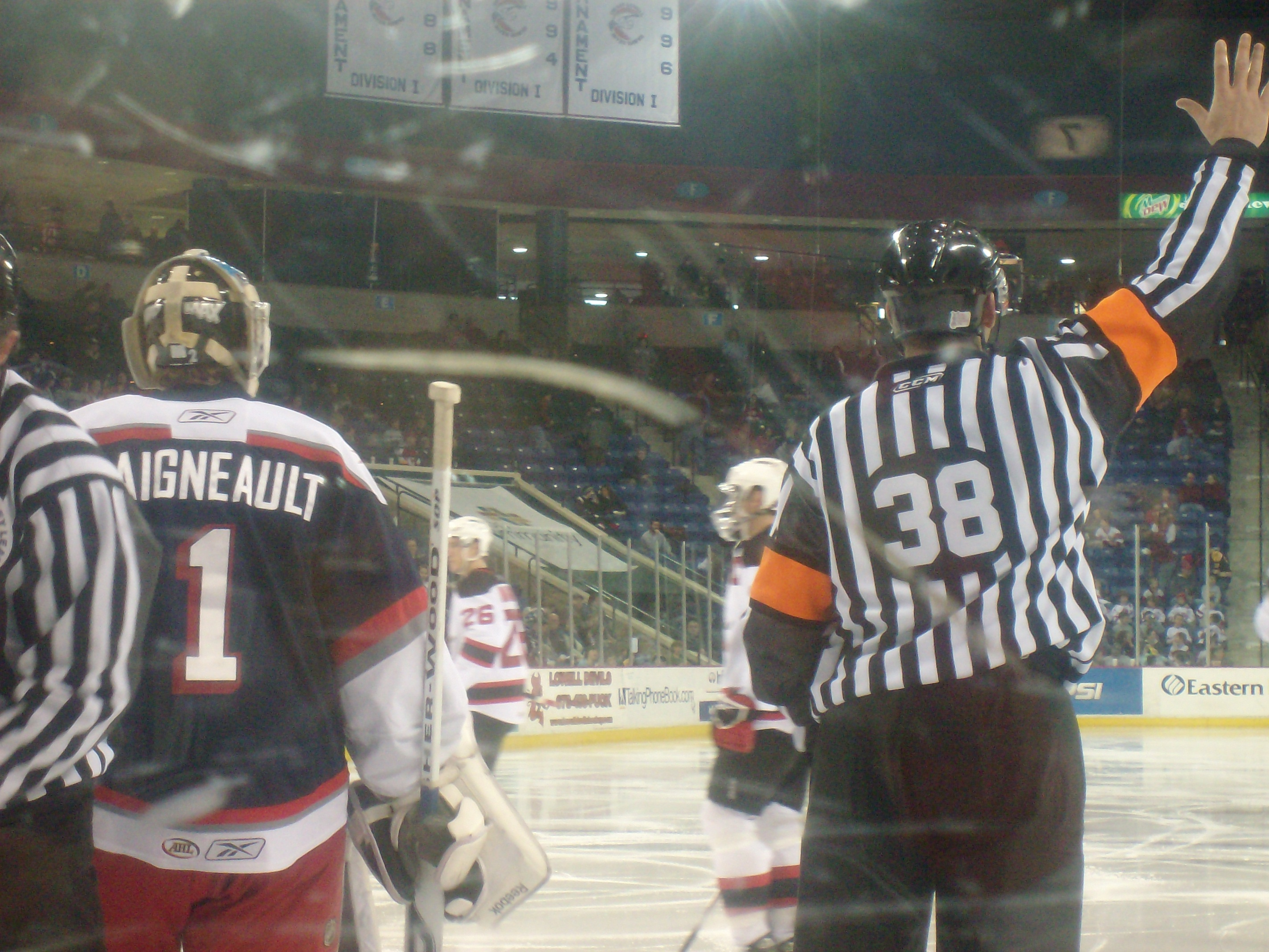 Francois St. Laurent refereeing a game between the Hartford Wolf Pack and the Lowell Devils.